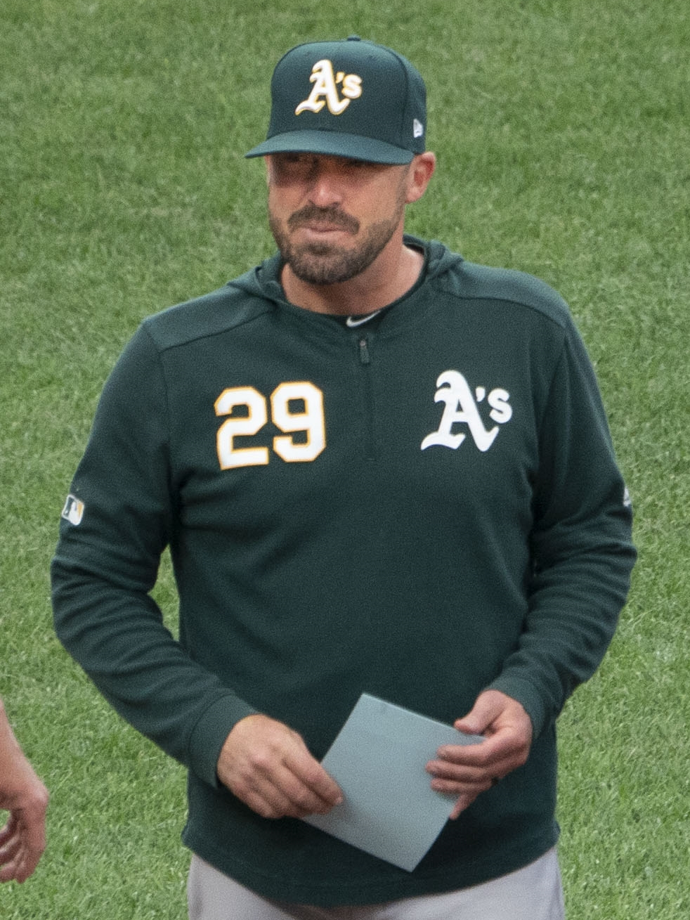 Ryan Christenson, Athletics at Orioles 4/9/19